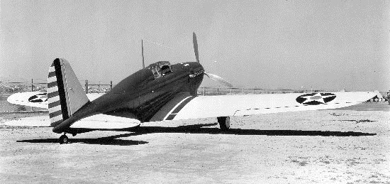 The Consolidated PB-2A Special (s/n 35-7) on the ramp during flight testing, March 25 1936.